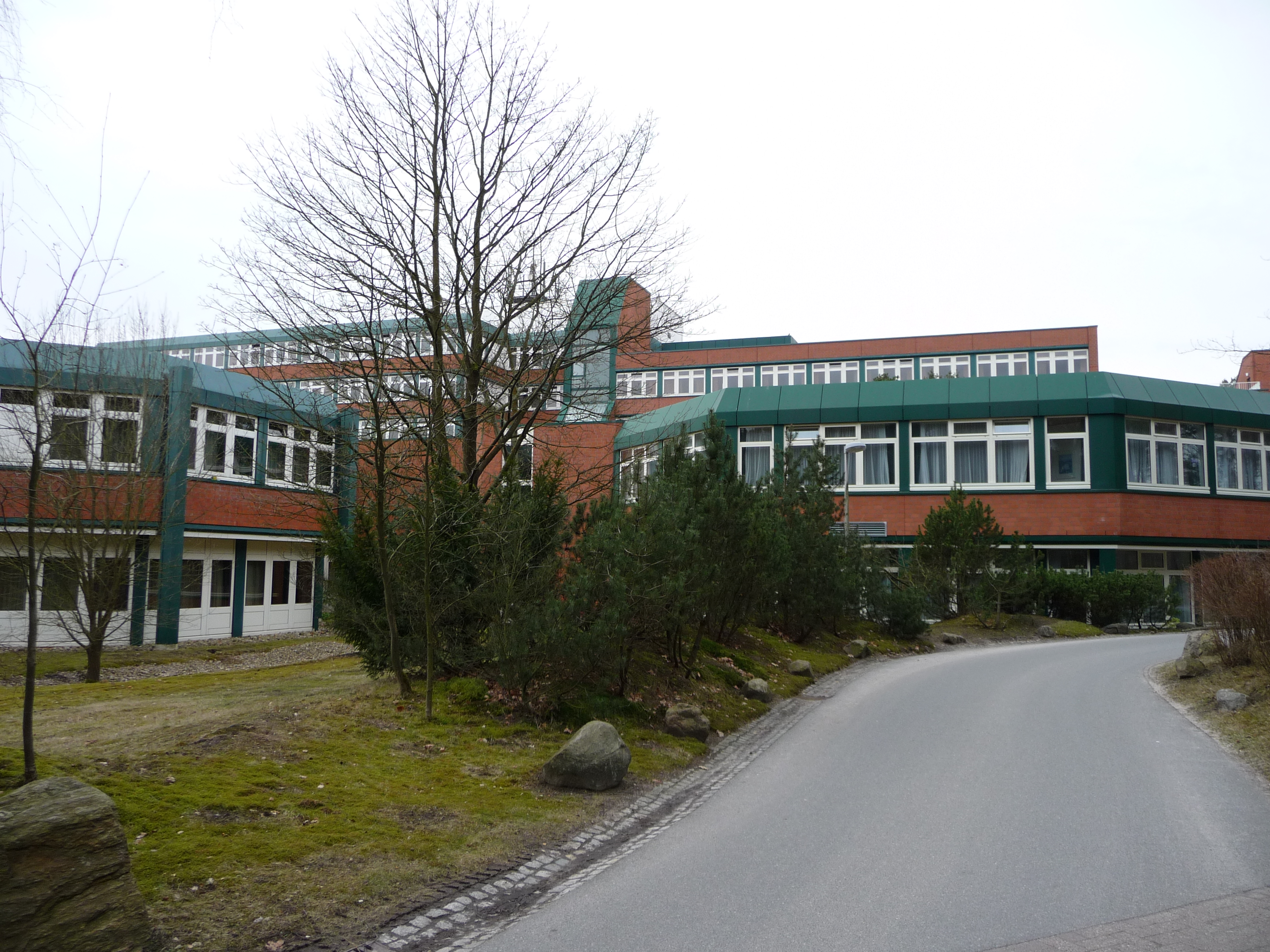 Rehab clinic Soltau